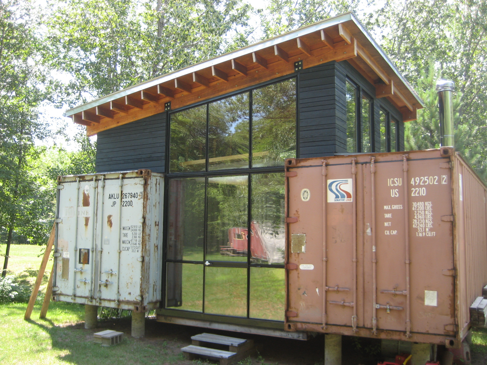 Flickr text: Paul and Sarah's shipping container get away